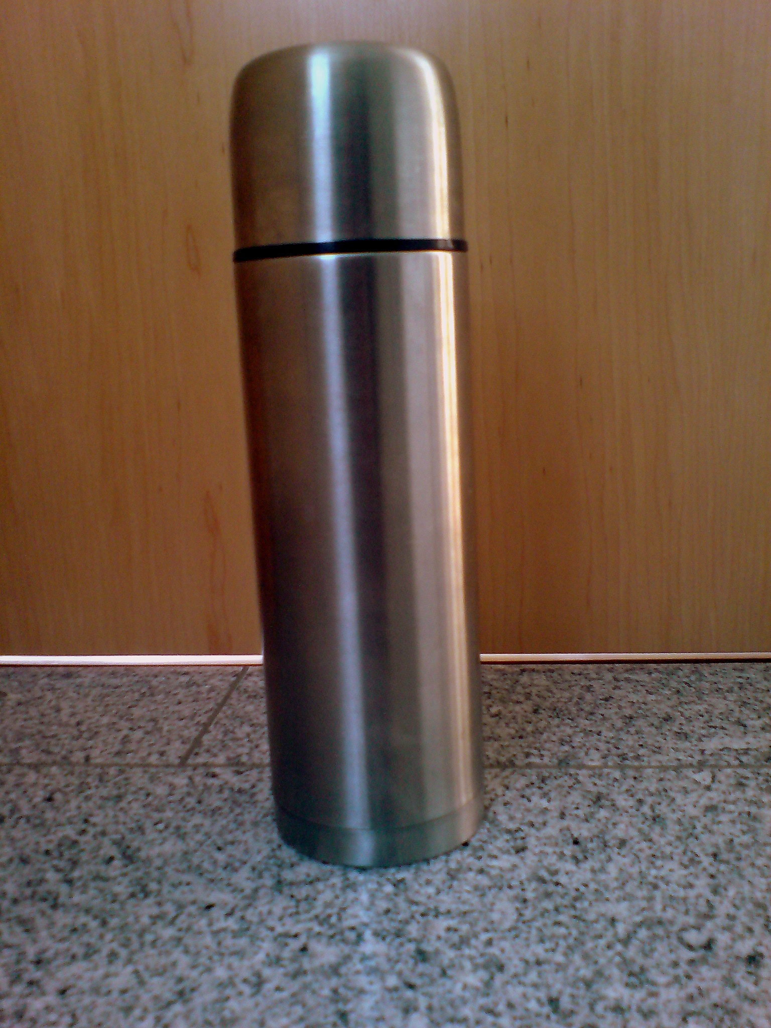 silver, high thermos jug